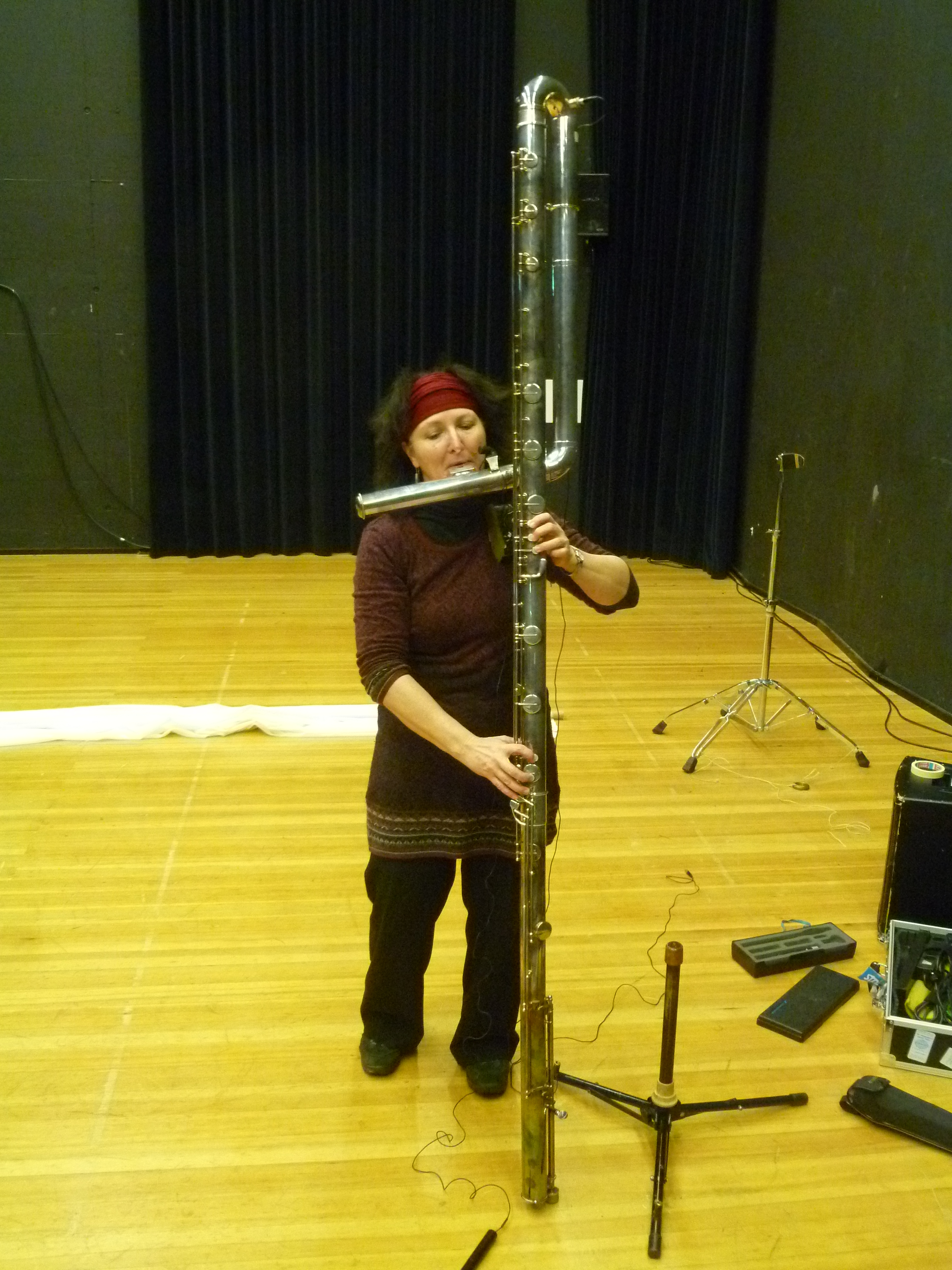 Bass Flute in G